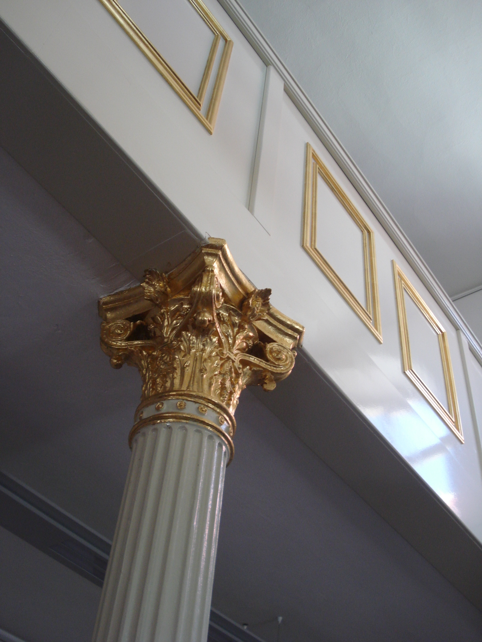 Interior detail inside Lendava Synagogue